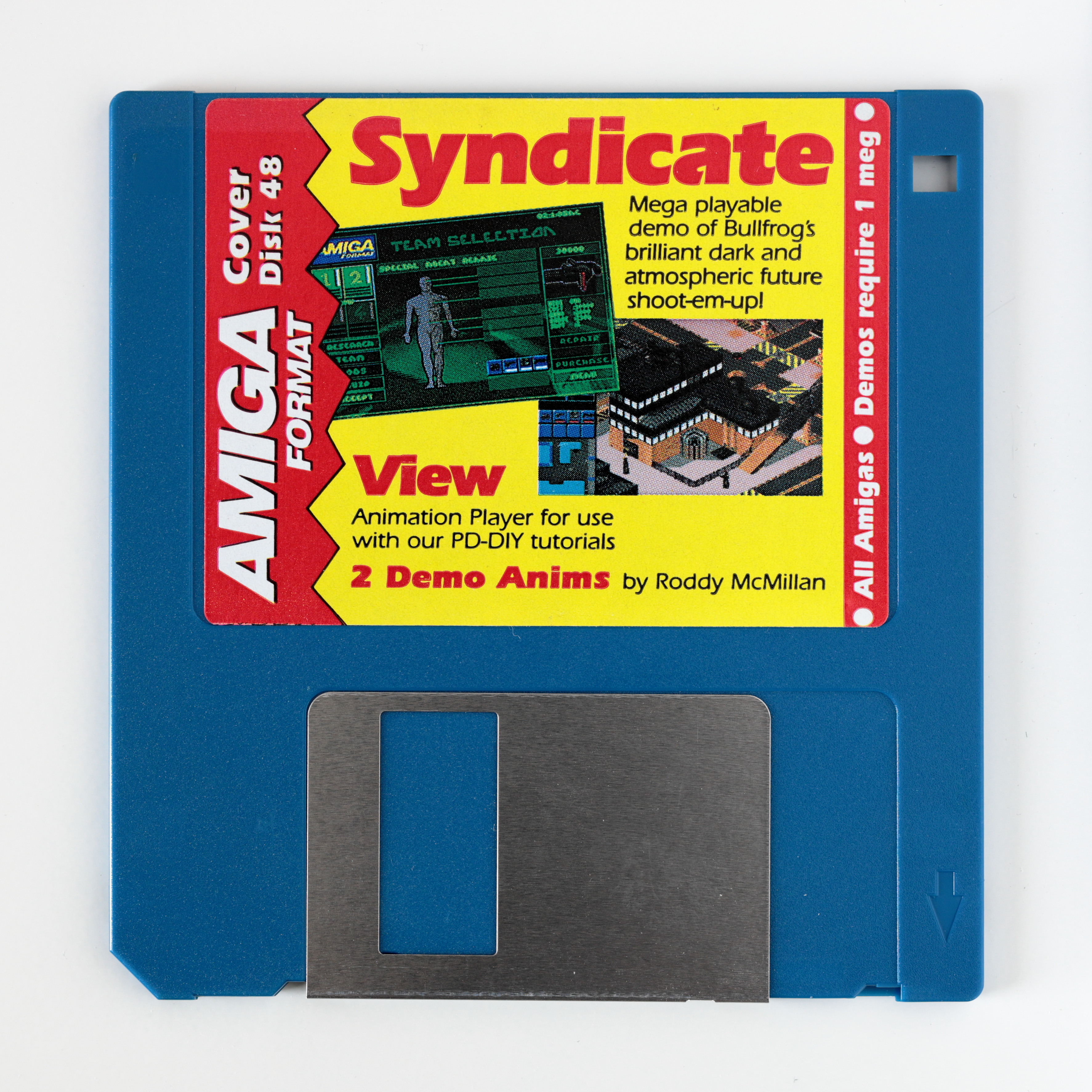 Amiga Format Cover Disk 48, distributed with the July 1993 issue of the magazine. The diskette offers a demo of the game Syndicate, two demo animations by Roddy McMillan, and animation player software named View. The label says that the content works on all Amiga computers, but that the demos requires 1 megabyte (of RAM).